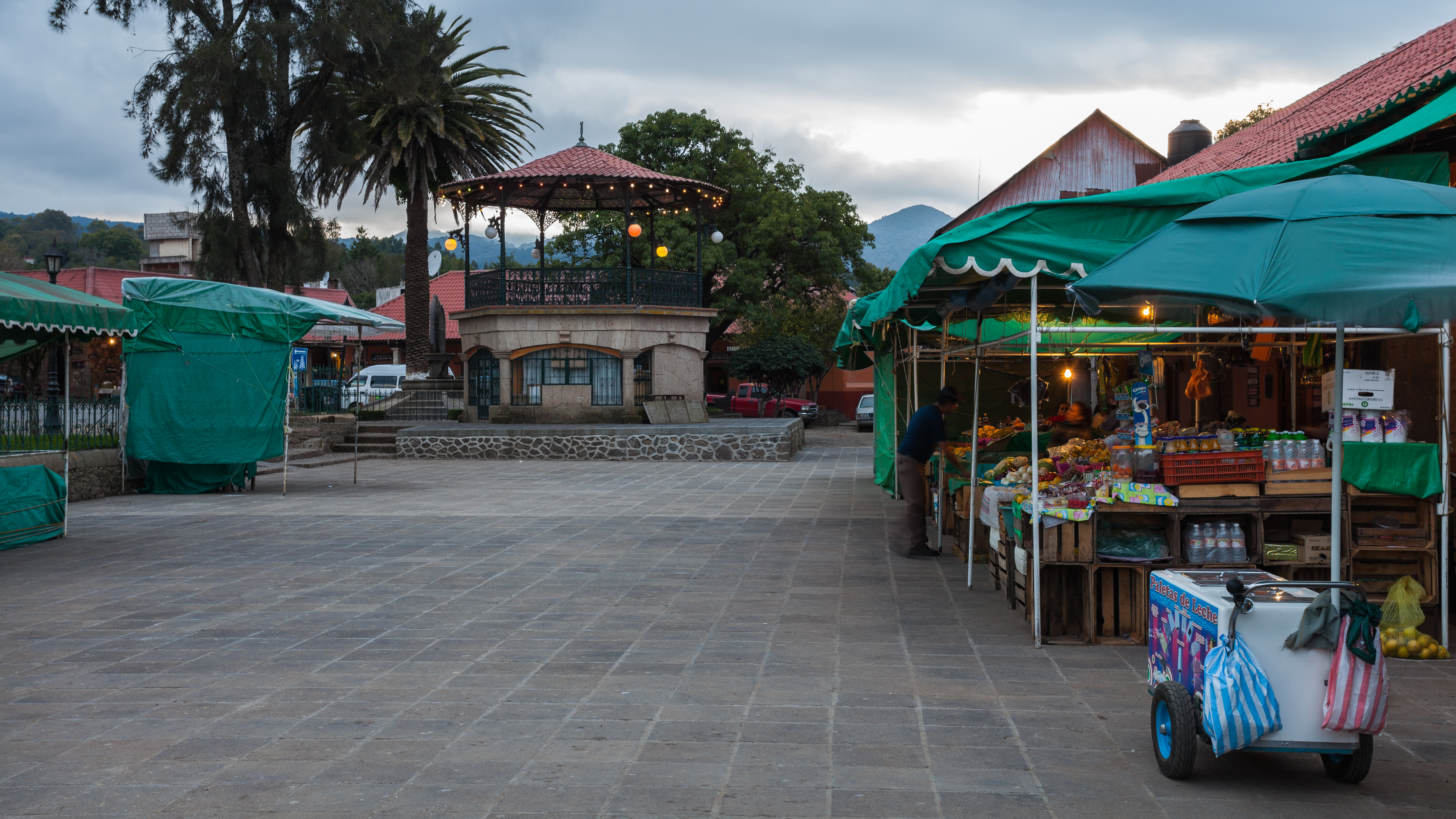 Huasca de Ocampo, Hidalgo, Mexico